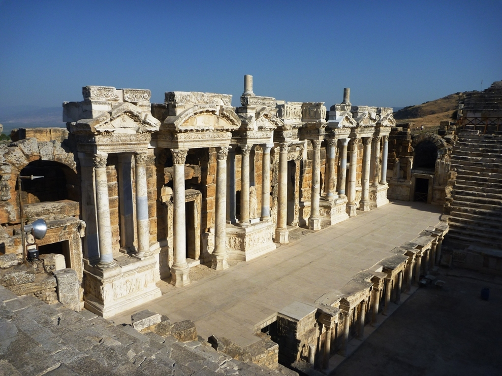 Theatre of Hierapolis in Phrygia (TR). The scanae frons after the restoration of the first level (2011-2013).